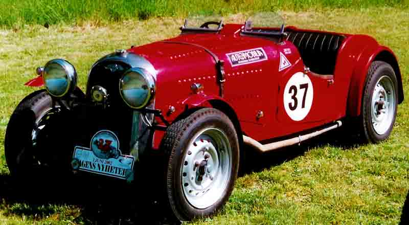 Morgan 4/4 Special 2-Seater Sports 1938